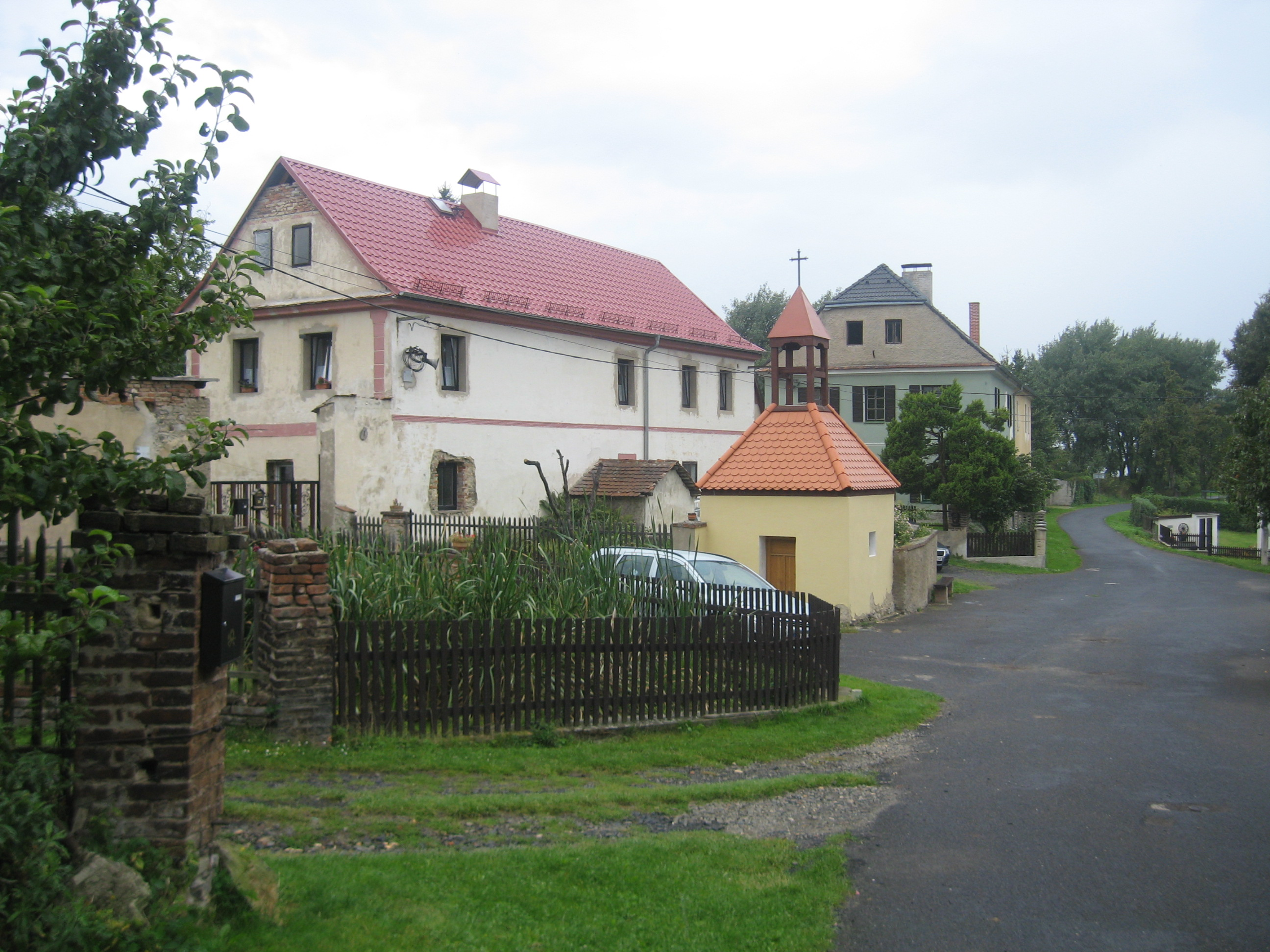 Village square in Hlince